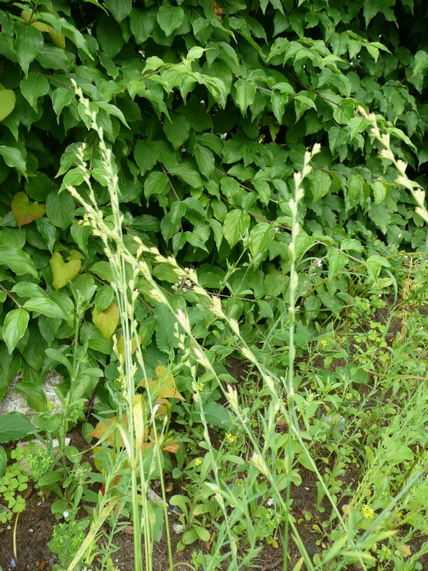 Lolium remotum at the Botanical Garden Erlangen